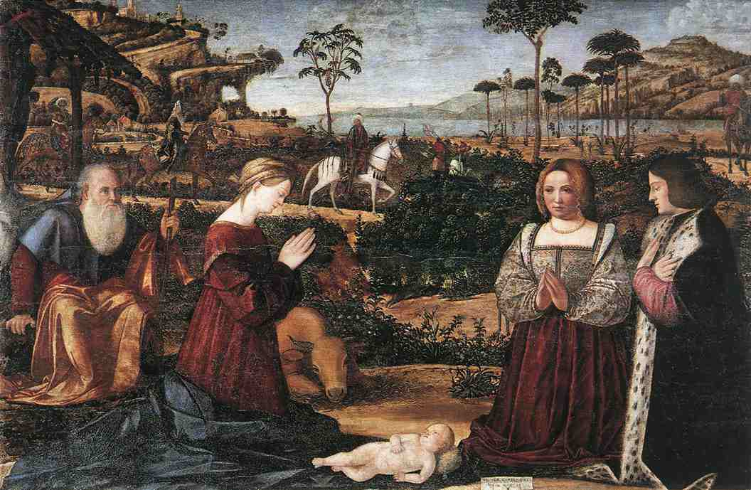 Holy Family with Two Donors